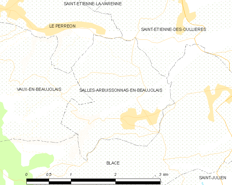 Map of French municipality